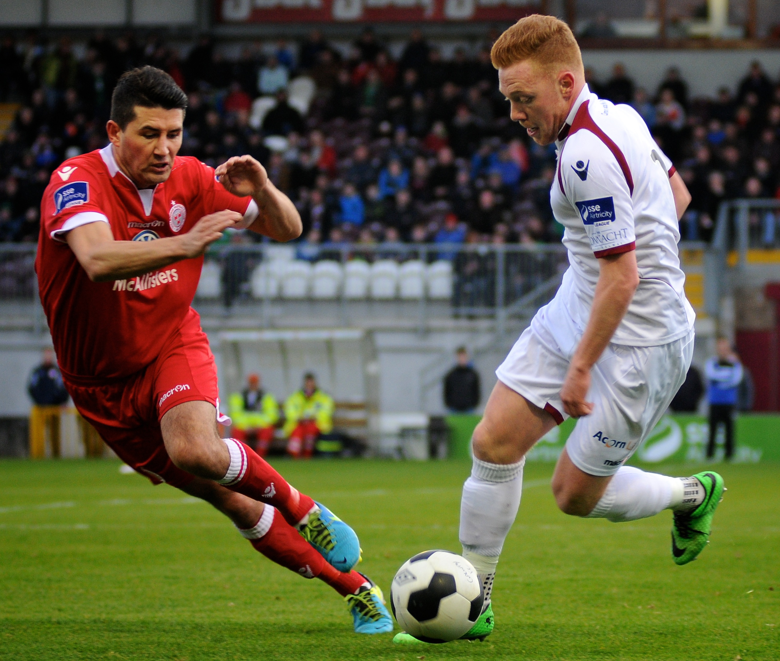 Willo McDonagh of Shelbourne and Ryan Connolly of Galway F.C. in action in the 2014 League of Ireland First Division